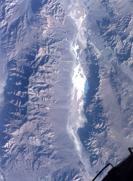 USA-CALIFORNIA/DEATH VALLEY STS073-E-5119 UNITED STATES OF AMERICA, CALIFORNIA/DEATH VALLEY Taken from the Space Shuttle Columbia During STS-073 (the black object in the foreground in the lower right corner).